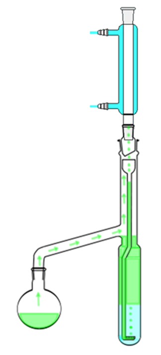 Continuous liquid-liquid extractor